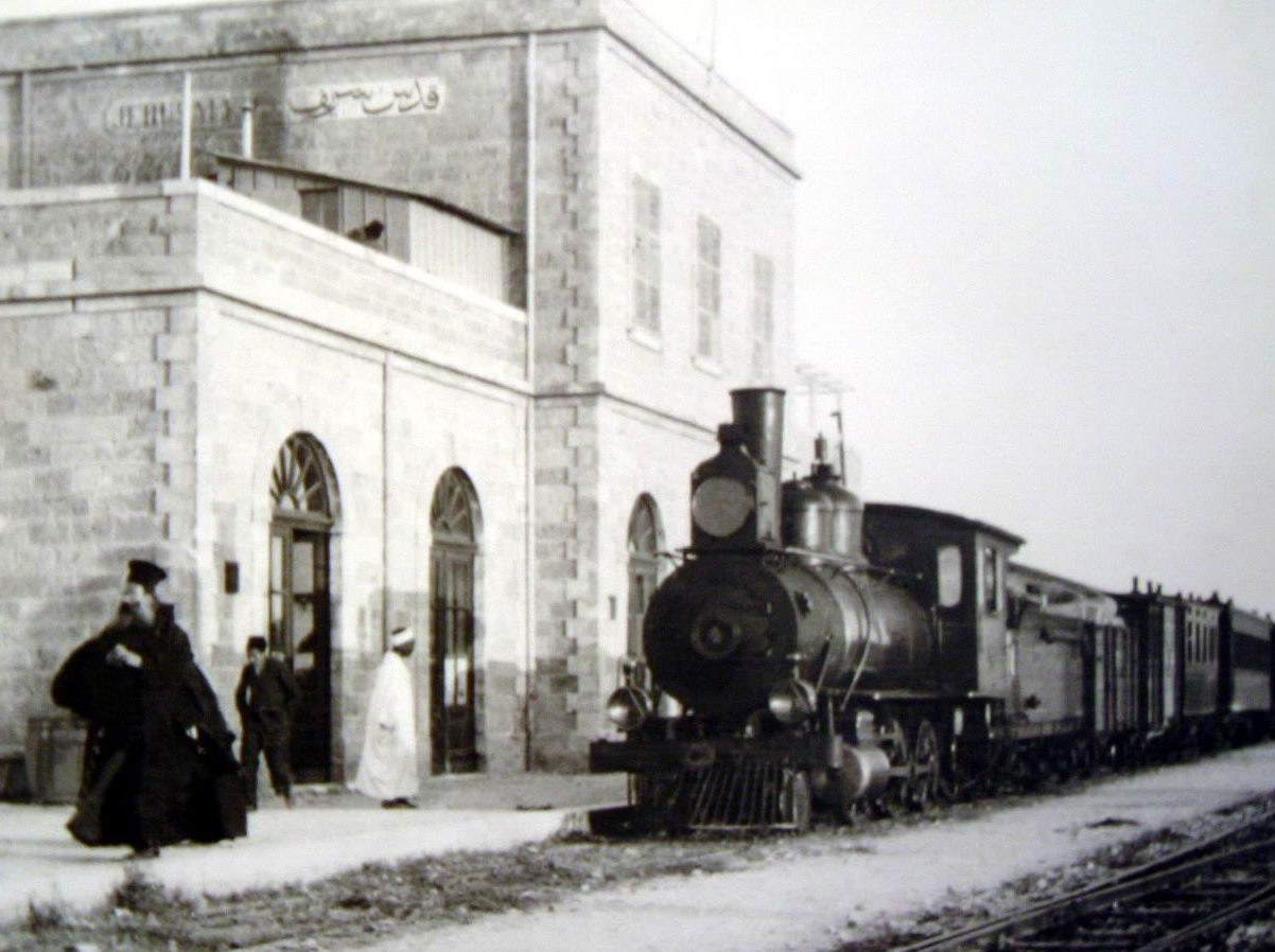 A train arriving at the Jerusalem railway station, on the first railway in the Middle East. Copyright clarification: It is not exactly clear what year the picture is from, but judging by the train used and the look of the station, it is definitely a pre-WWI picture, which makes it public domain. Furthermore, by the rolling stock used it's possible to make an educated guess that the picture was taken between 1892 and 1900, although it's hard to be sure.